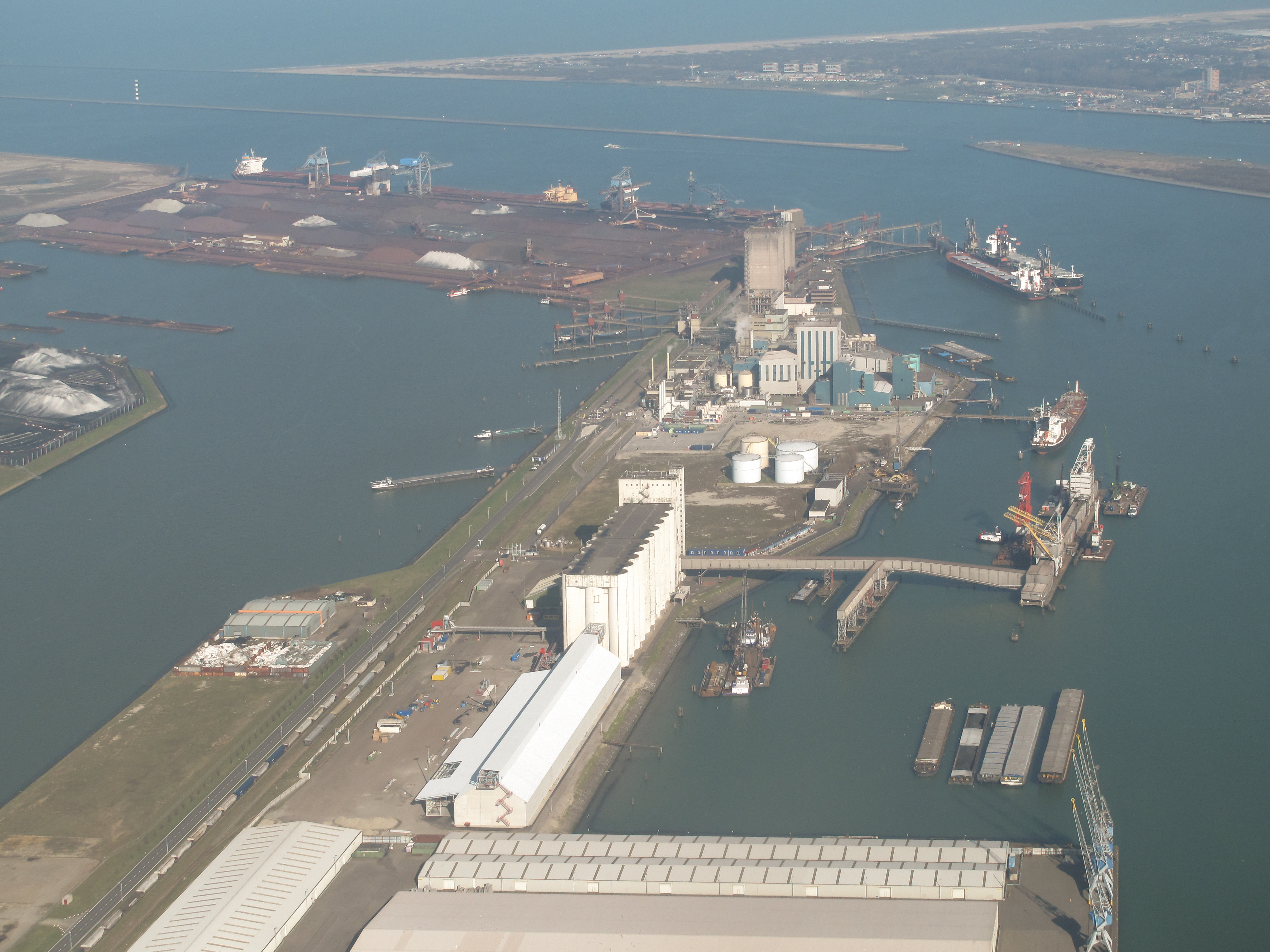 Europoort, port: de Dintelhaven-Dommelhaven